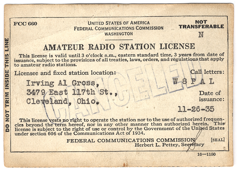 amateur radio FCC licence of Al Gross